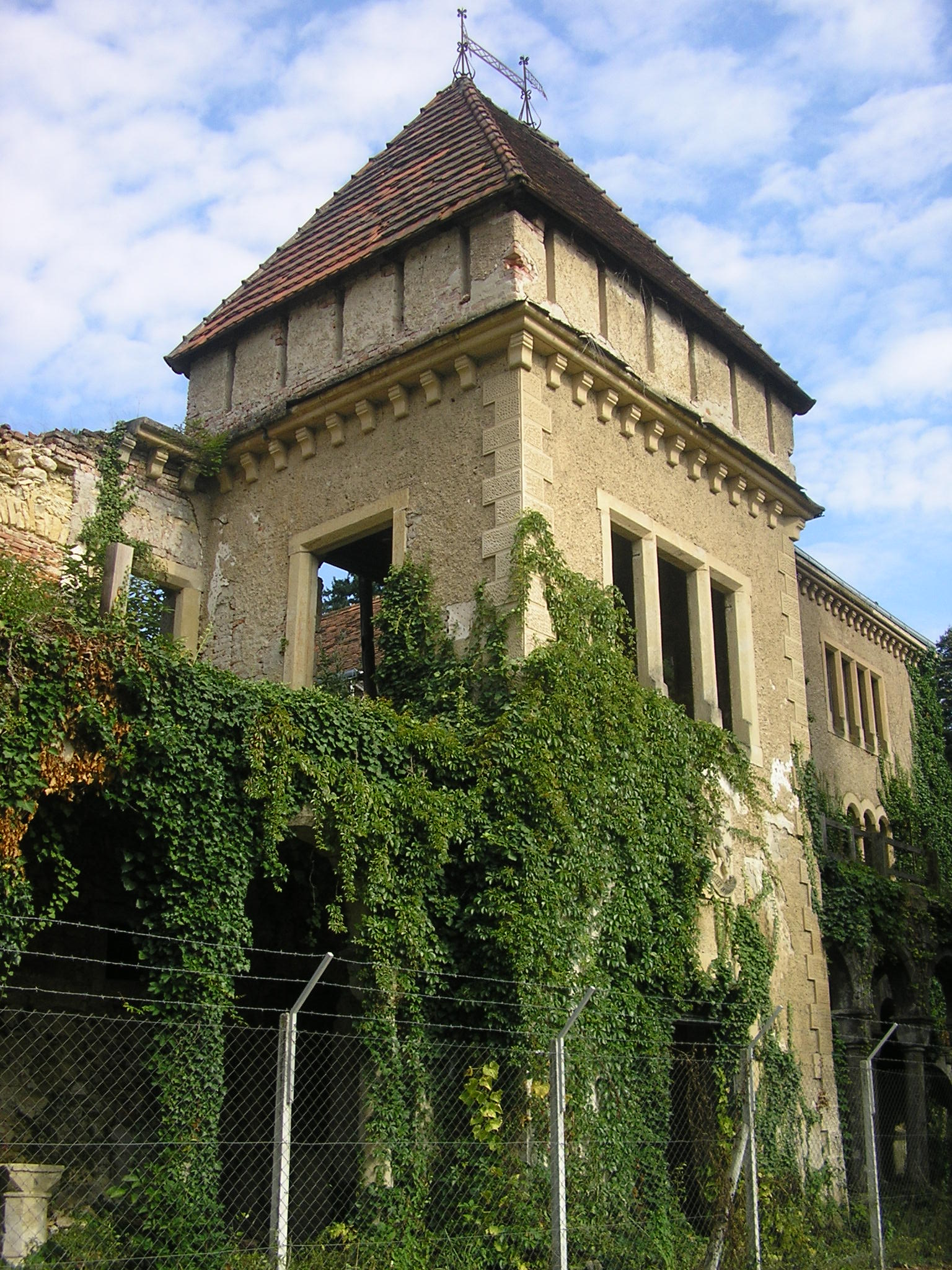 Opeka Manor, Vinica municipality, Varaždin county, Croatia